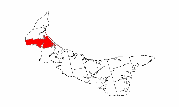 Public domain map of Prince Edward Island created by User:Plasma east with data courtesy of Geogratis, modified to show parishes. Released under GFDL (self).